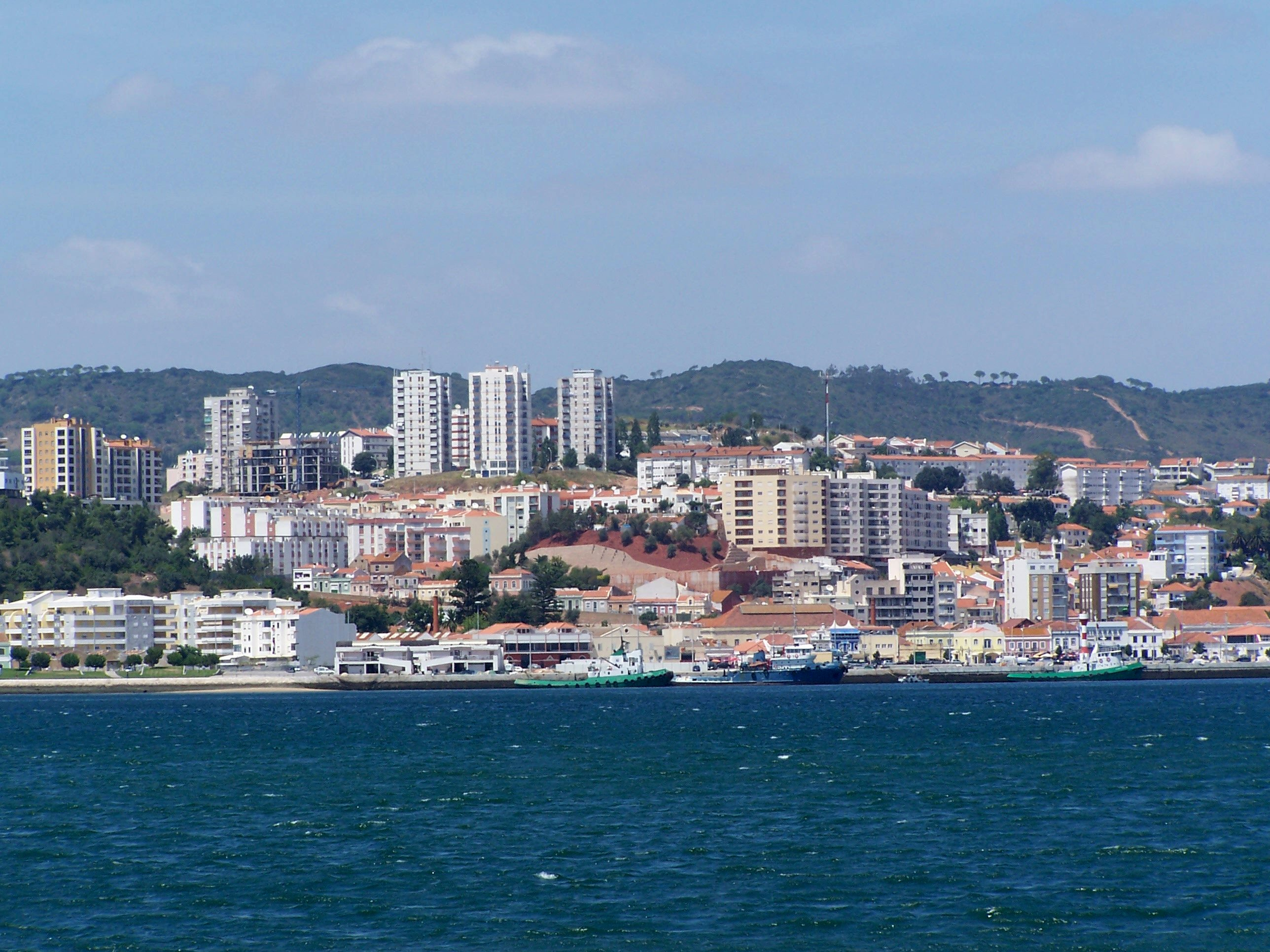 Setúbal is a city and a municipality in Portugal with a total area of 172.0 km² and a total population of 118,696 inhabitants in the municipality. The city proper has 89,303[1] inhabitants. The municipality is composed of 8 parishes, and is located in the district of Setúbal.